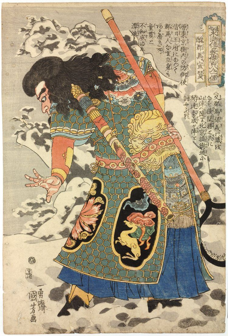 Xuan Zan (宣贊) armed with a barbed ring on a pole, waits for fleeing enemies in the snow.